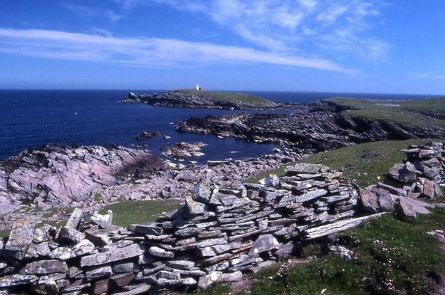 East coast of Mousa Looking SSE towards the Peerie Bard. Shetland Islands.